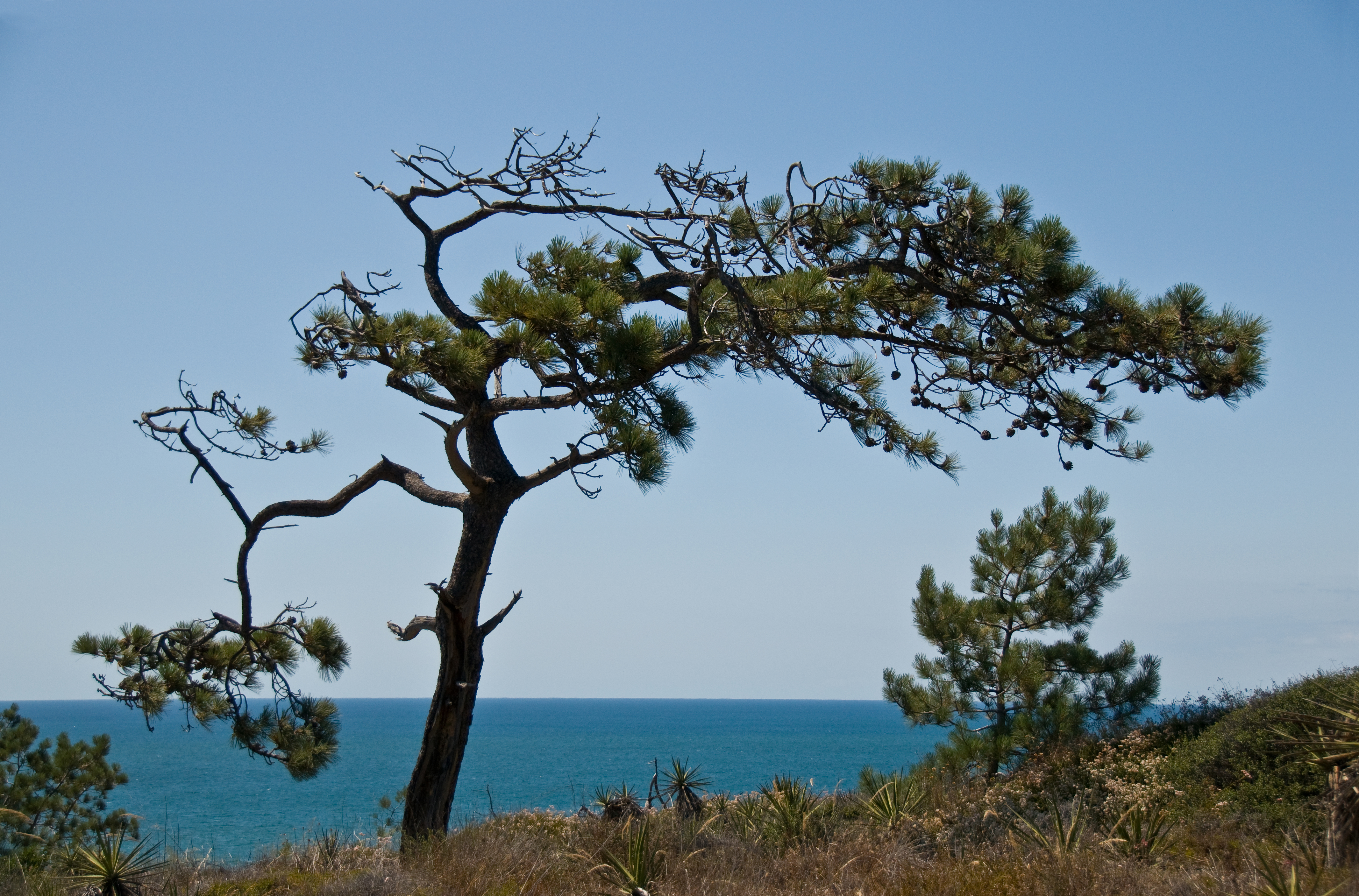 Pinus torreyana, Torrey Pines State Reserve, San Diego, California.